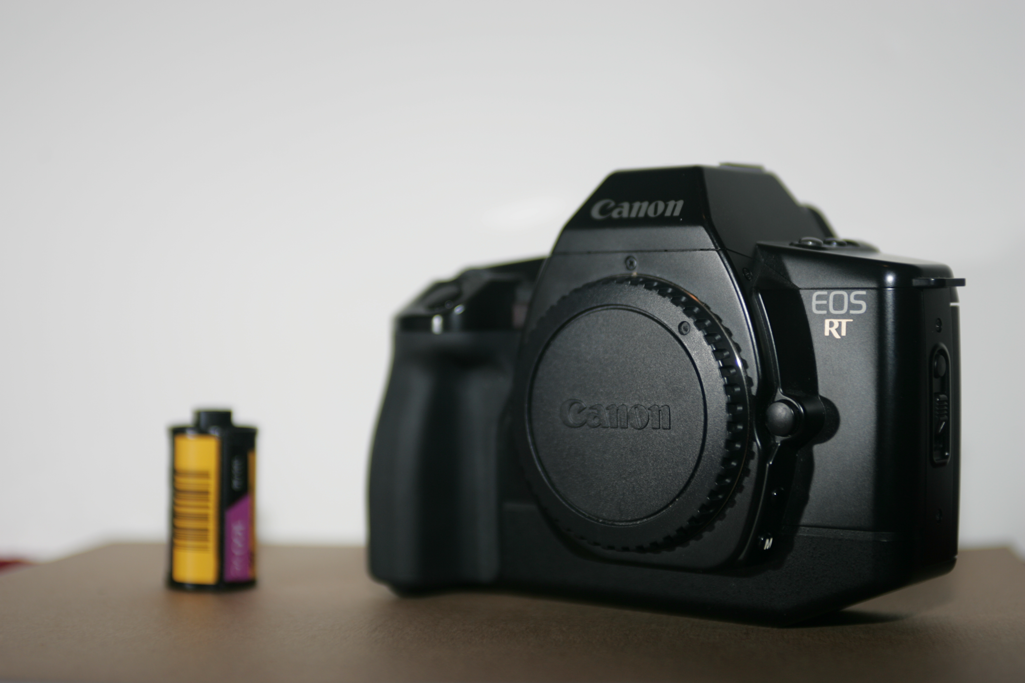 photo by Canonperson, 2005